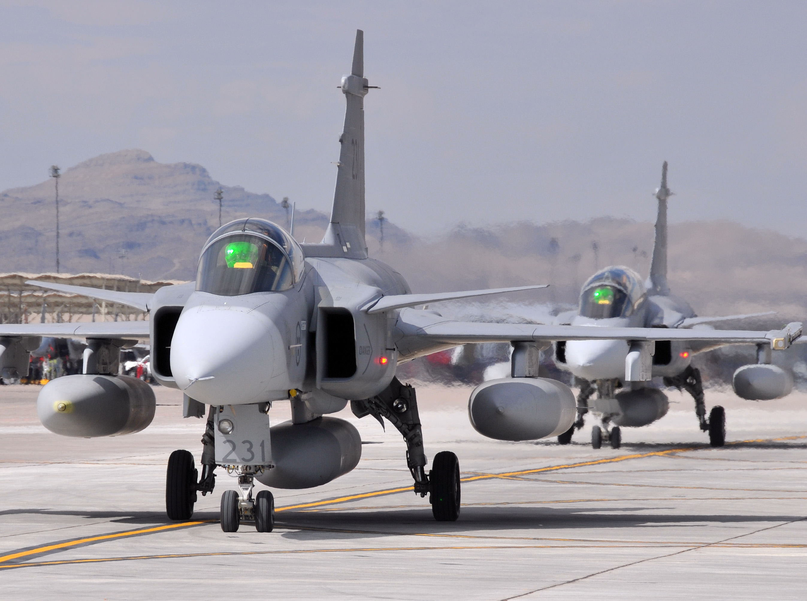 Swedish air force JAS 39 Gripen fighters arrive at Nellis AFB, Nev., on July 14 for Red Flag 08-3. Seven Gripens and their crews, from the 212nd Fighter Squadron at Norrbotten Wing, Sweden, are participating in their first Red Flag exercise at Nellis. Red Flag 08-3 runs July 19 - Aug. 2. Aircraft from the Brazilian and Turkish air forces will join Swedish and U.S. forces for the exercise.